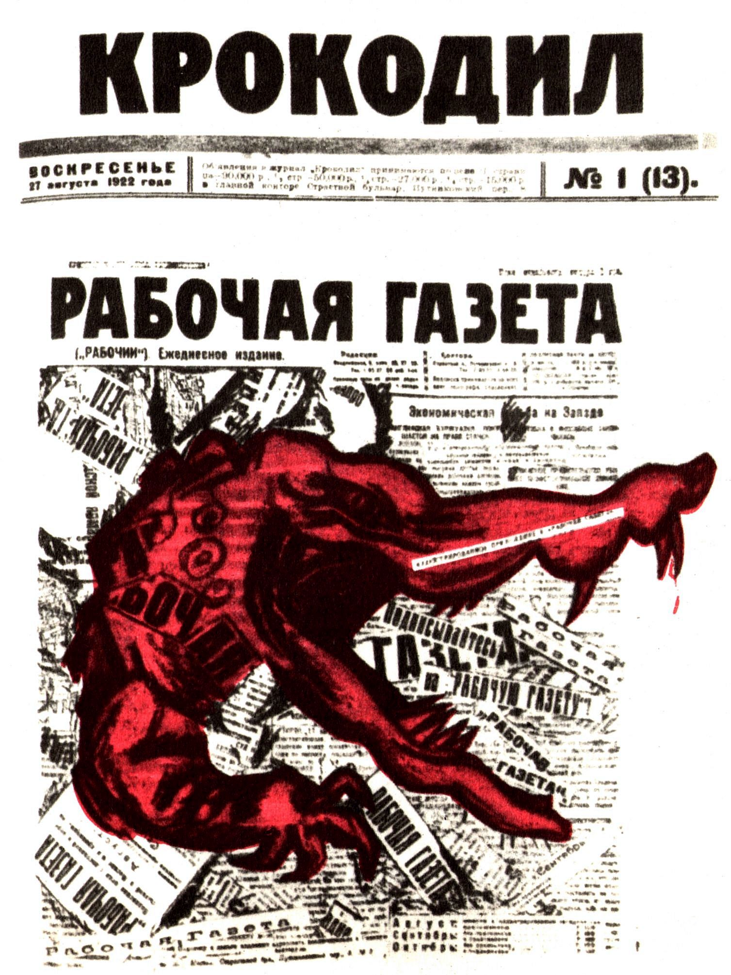 The cover of the first issue of the Soviet satirical magazine Krokodil: No 1(13), the 13th issue of the illustrated appendix to the newspaper Rabochaya Gazeta and the first issue printed as Krokodil.On the cover the crocodile (the Russian word krokodil means crocodile) is bursting through the pages of Rabochaya Gazeta.